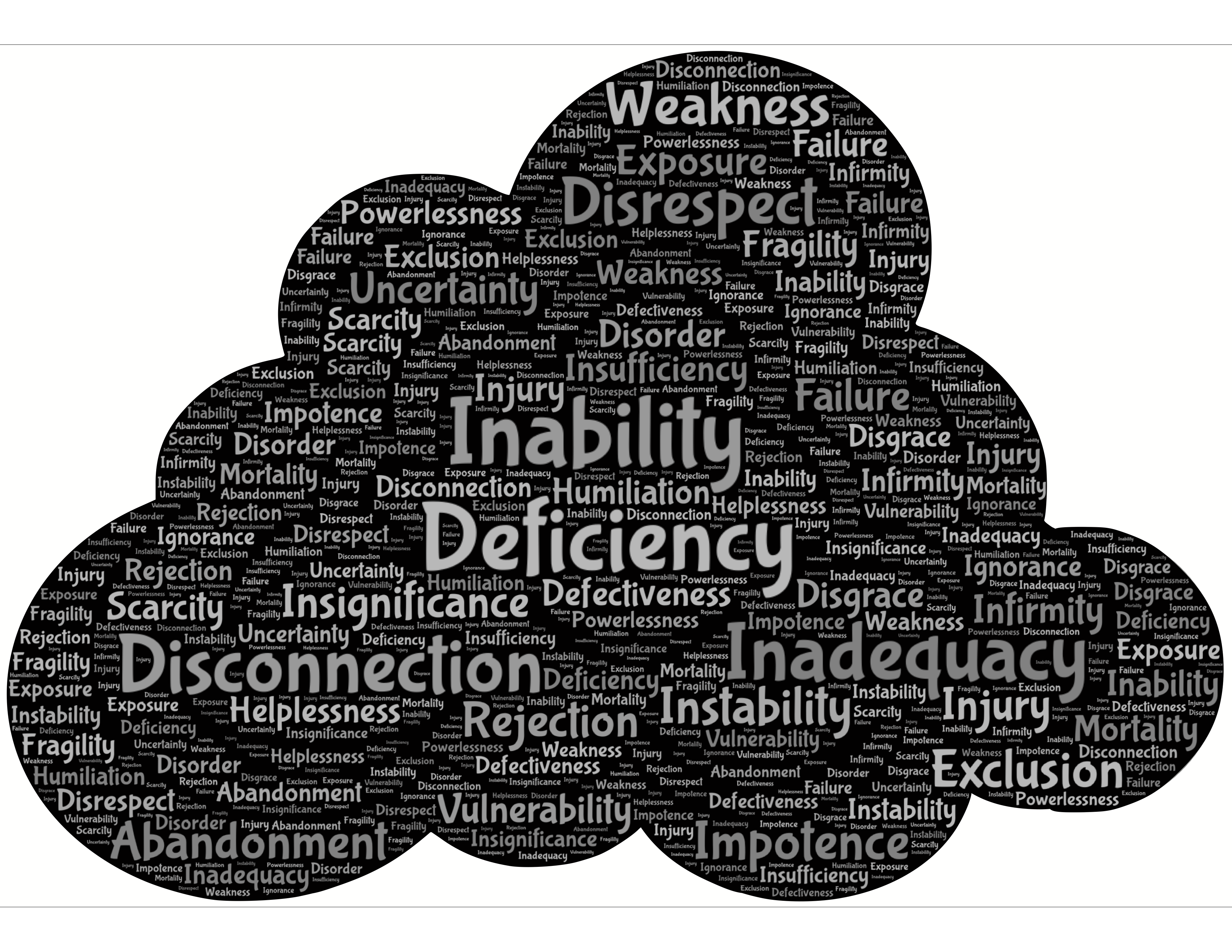 Cloud of emotions